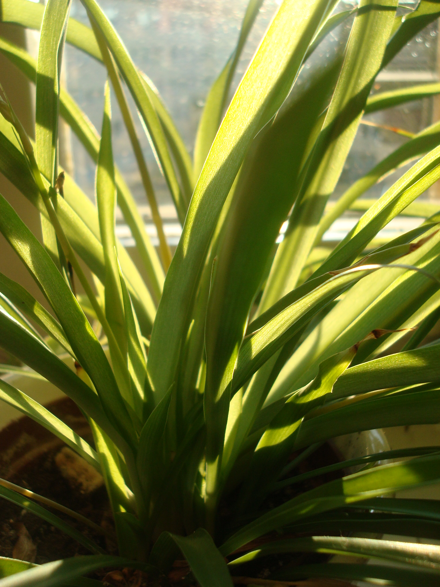 Chlorophytum